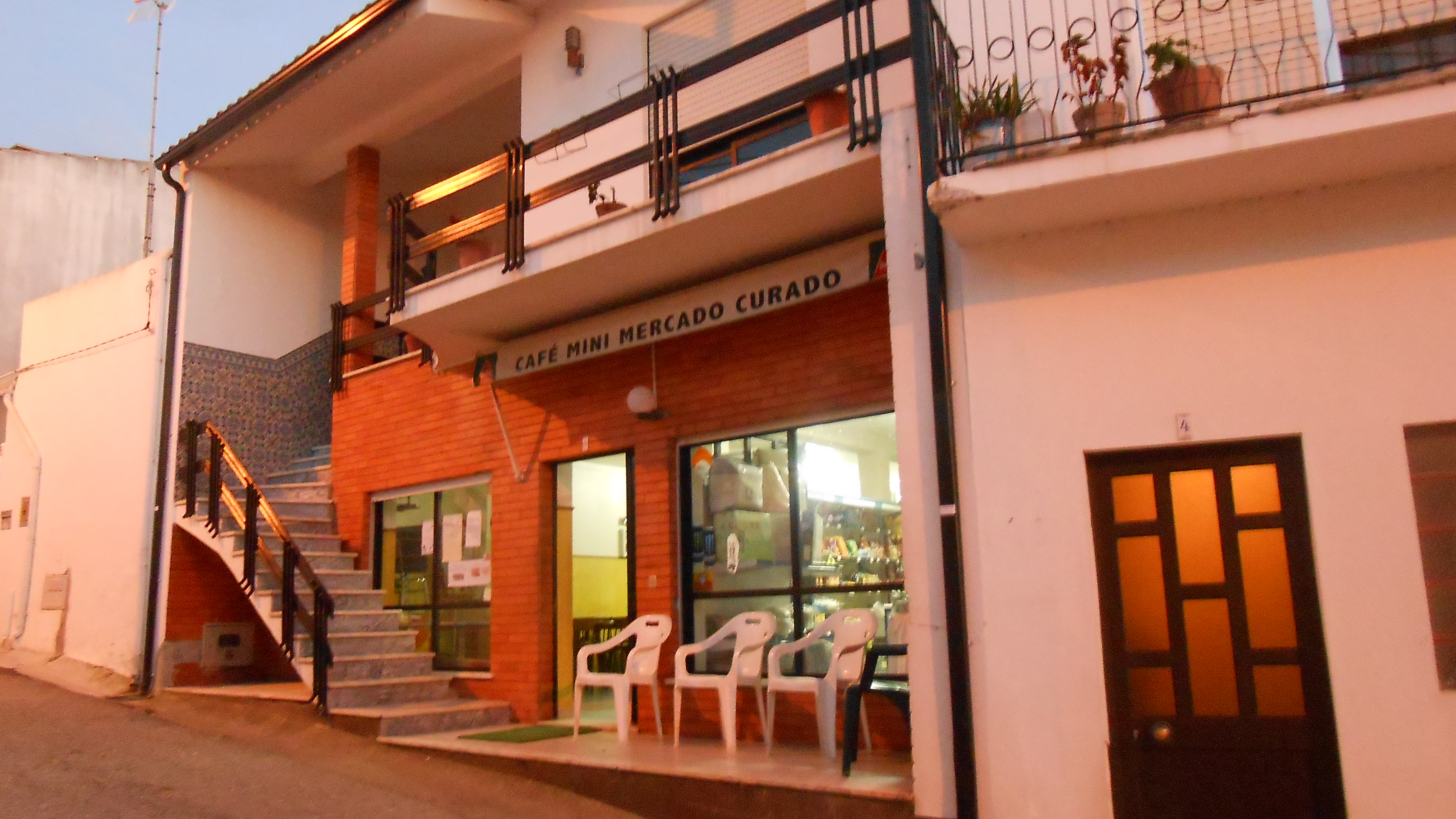 The café and grocery store Curado in Carvalhal da Azoia, a small village in the parish of Samuel, municipality of Soure, district of Coimbra, continental Portugal.